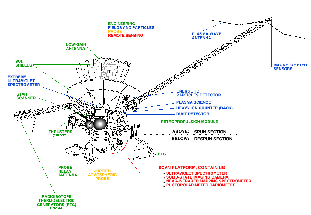 Diagram of the Galileo spacecraft showing the equipment and instruments the spacecraft carried to Jupiter.